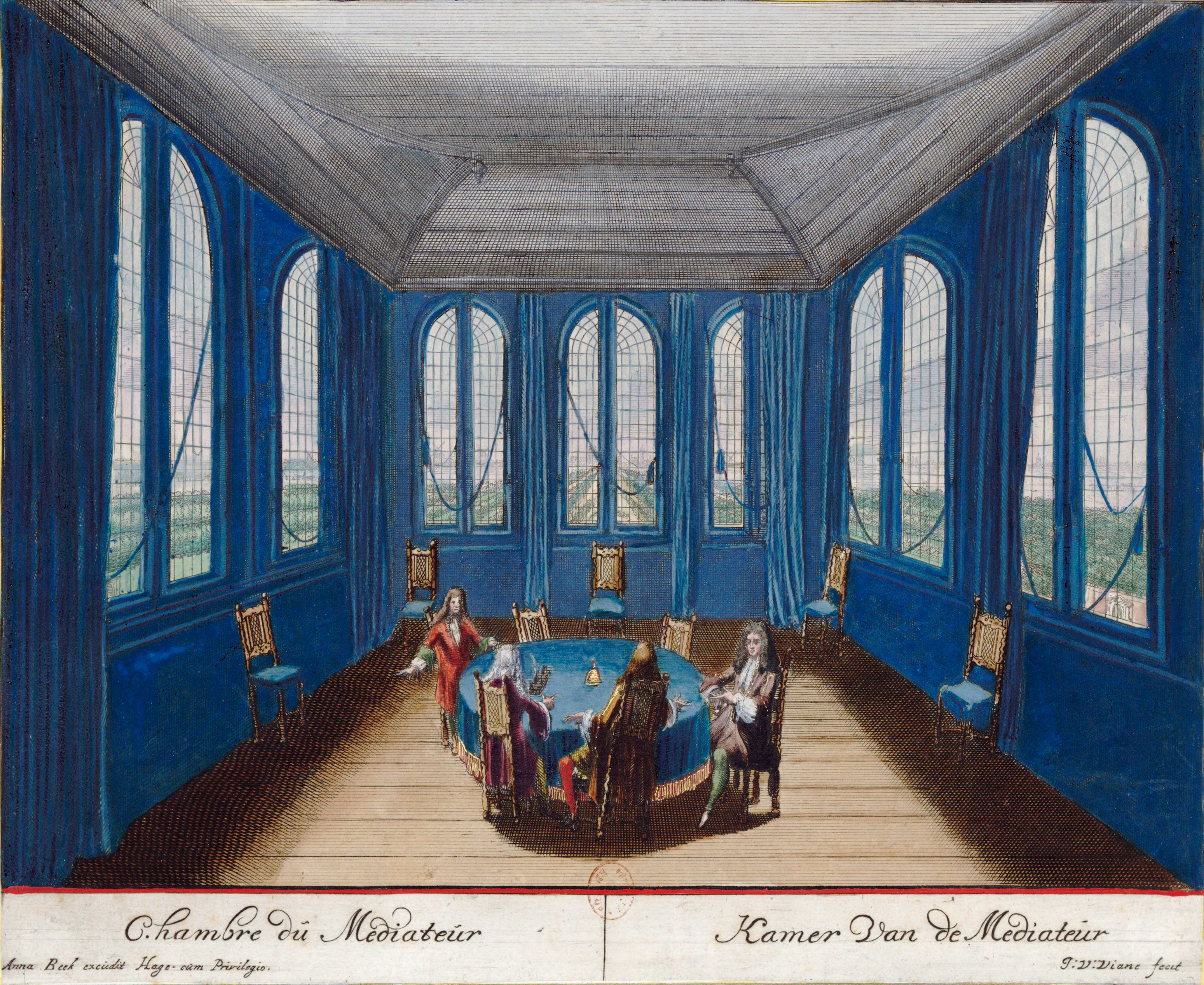 Ryswick Treaties (1697)